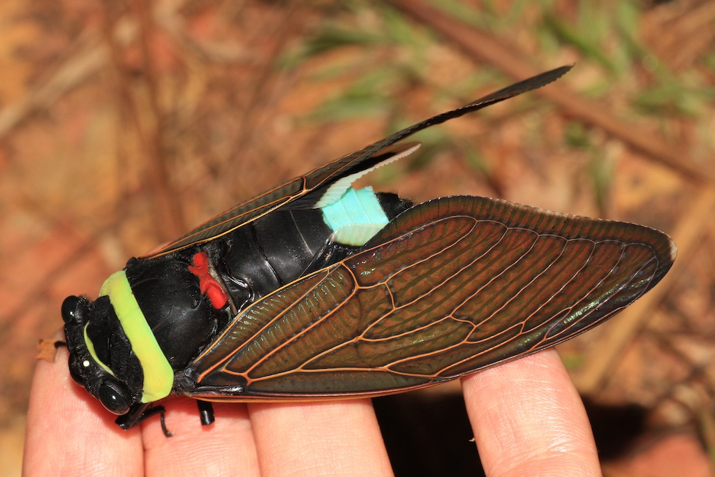 Tacua speciosa (Cicadidae). Borneo. Trusmadi area. 2100 m